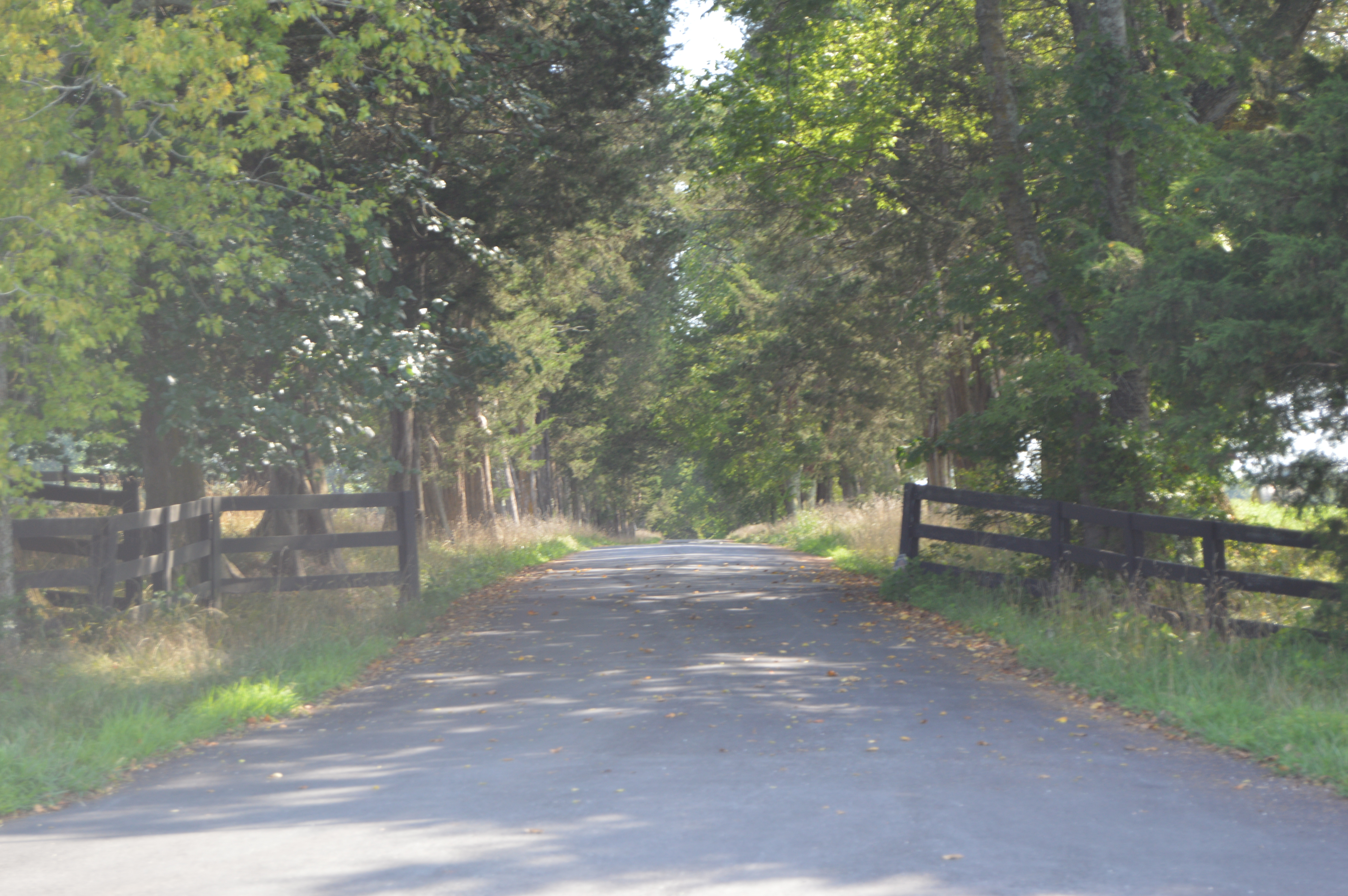 Entrance to the Ben Dover estate, located off State Route 6 in the Manakin-Sabot area of Goochland County, Virginia, United States. The estate is listed on the National Register of Historic Places.